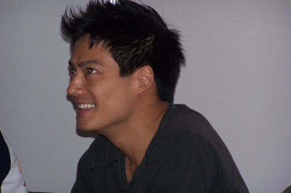 Kao in 2006